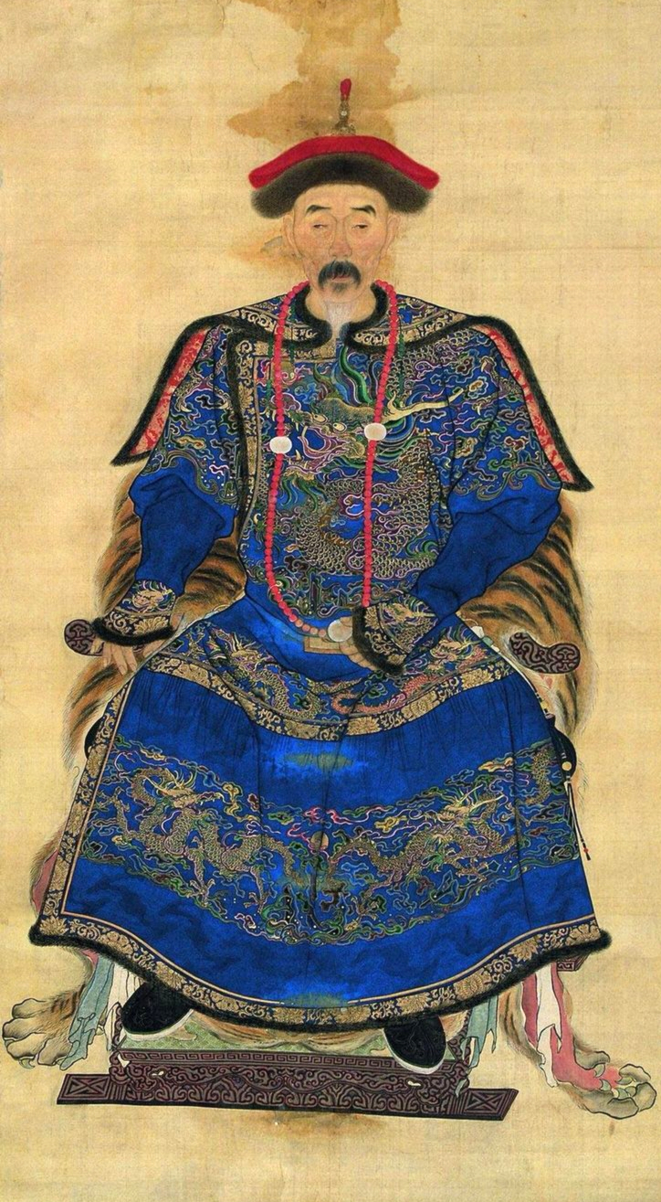 Hong Chengchou or Hung Cheng-chou (Chinese: 洪承疇; Pinyin: Hóng Chéngchóu; born 1593) was a Military commander at the end of the Ming Dynasty. He was one of the leaders that created the Qing Dynasty.Wu Sangui was very fearful of him and it was only after Hong died that Wu began to rebel.